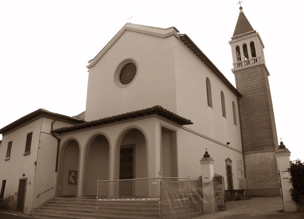 the Church of Santo Stefano at Ugnano, Florence, Italy. Bell Tower. Facade with Rectory and Bell Tower.